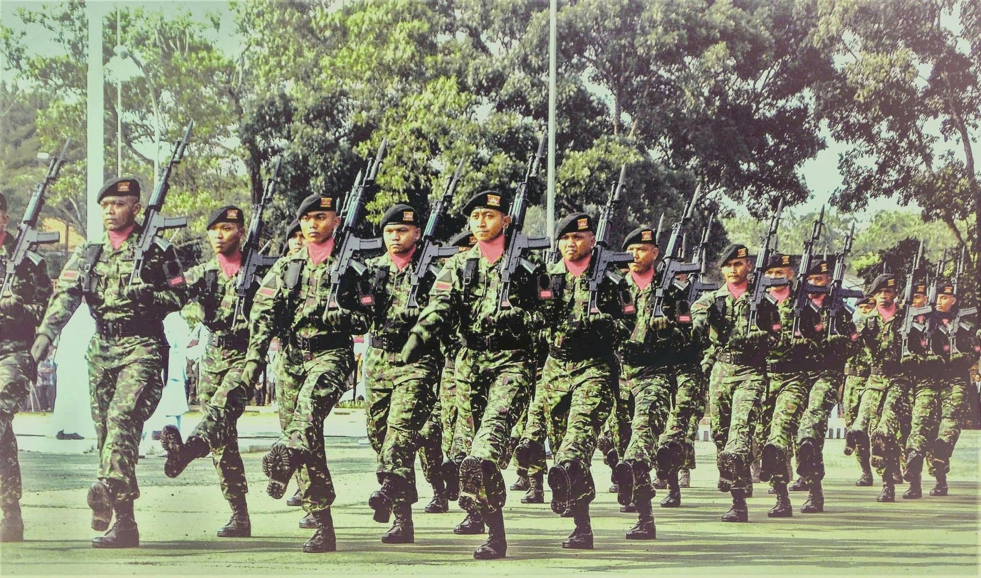 Indonesian Army soldiers parade